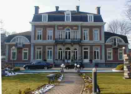 Picture from the front of the residence of Walloon presidency, commonly called "Elysette", in Namur, Wallonia (Belgium). Picture taken 1st March 2004 by Djôzef (Youssef) Mahin.